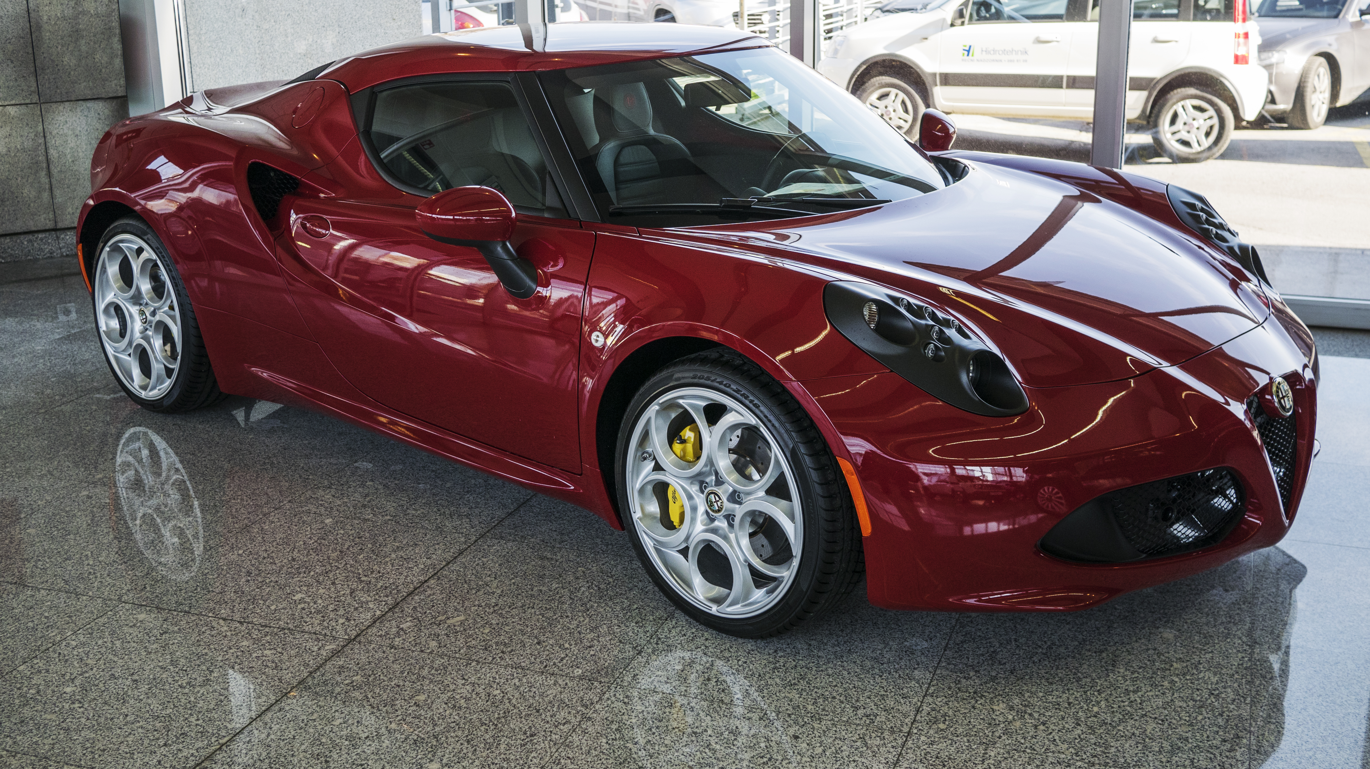 Alfa Romeo 4C